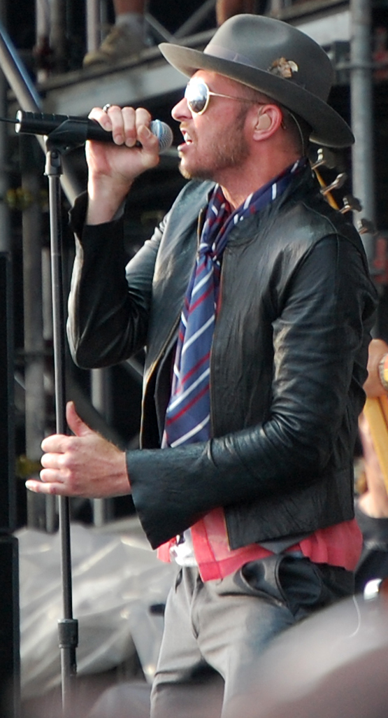 Stone Temple Pilots playing @ Virgin Festival, 08/10/08.